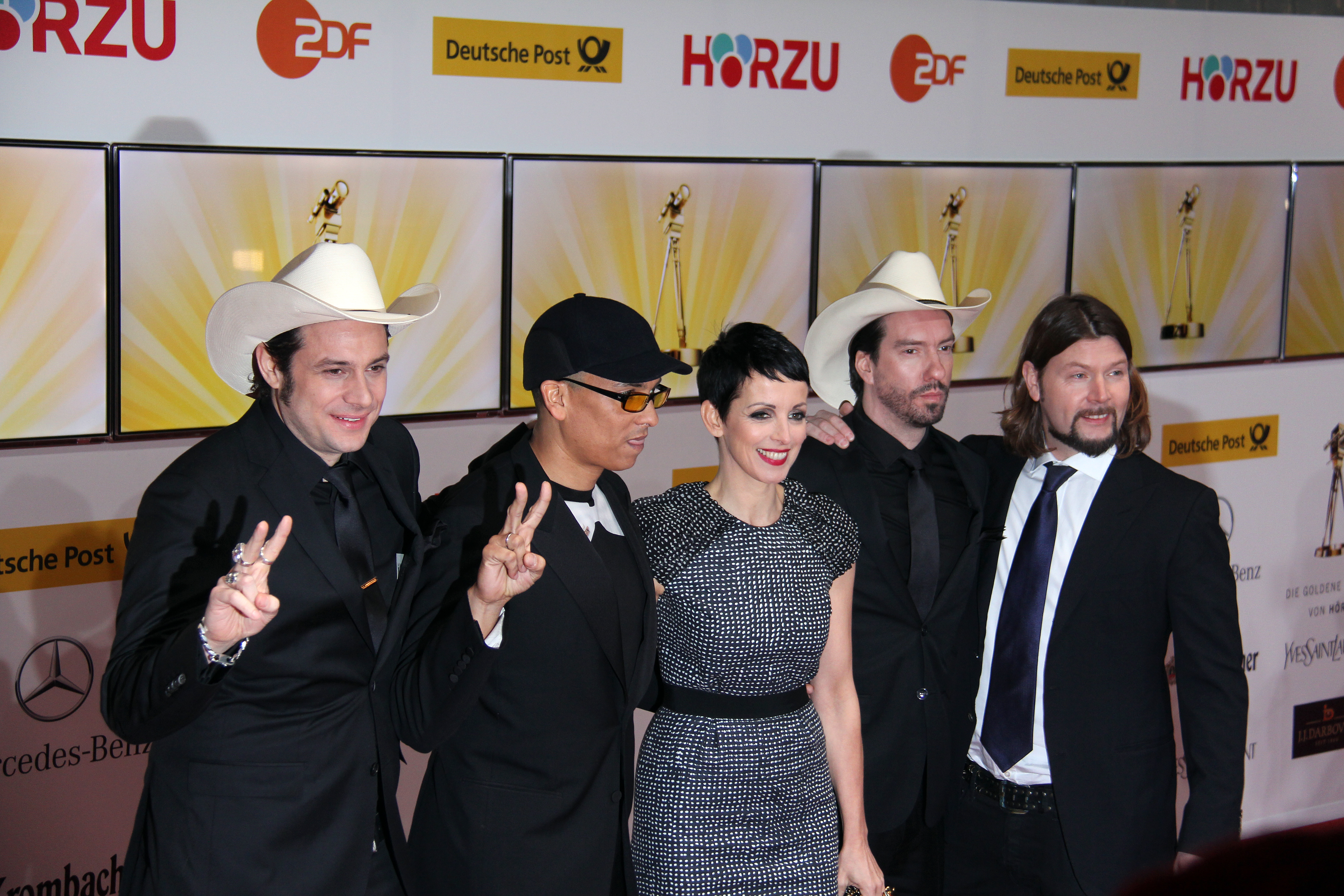 Das Coach-Team von The Voice of Germany (bei der Goldenen Kamera 2012